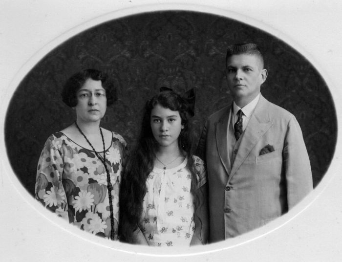 Portrait of P.R.W. van Gesseler Verschuir, his wife M.A. van Gesseler Verschuir-Pownall and their daughter